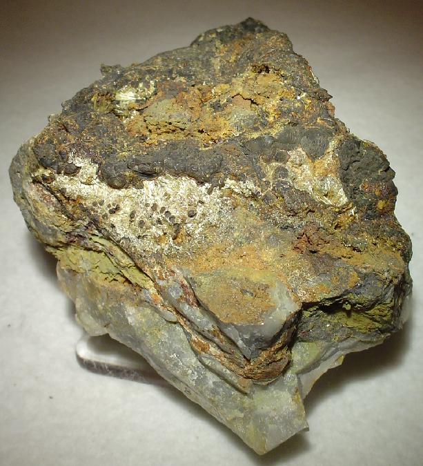 Strunzite Locality: Hagendorf South Pegmatite (Cornelia Mine; Hagendorf South Open Cut), Hagendorf, Waidhaus, Vohenstrauß, Oberpfälzer Wald, Upper Palatinate, Bavaria, Germany (Locality at ) An extremely rich and old specimen of strunzite needles on a gossan and quartz matrix from the TYPE LOCALITY OF Hagendorf, Germany. Strunzite is a rare manganese iron phosphate. Ex. Wein collection 9.5 x 6.7 x 3.5 cm